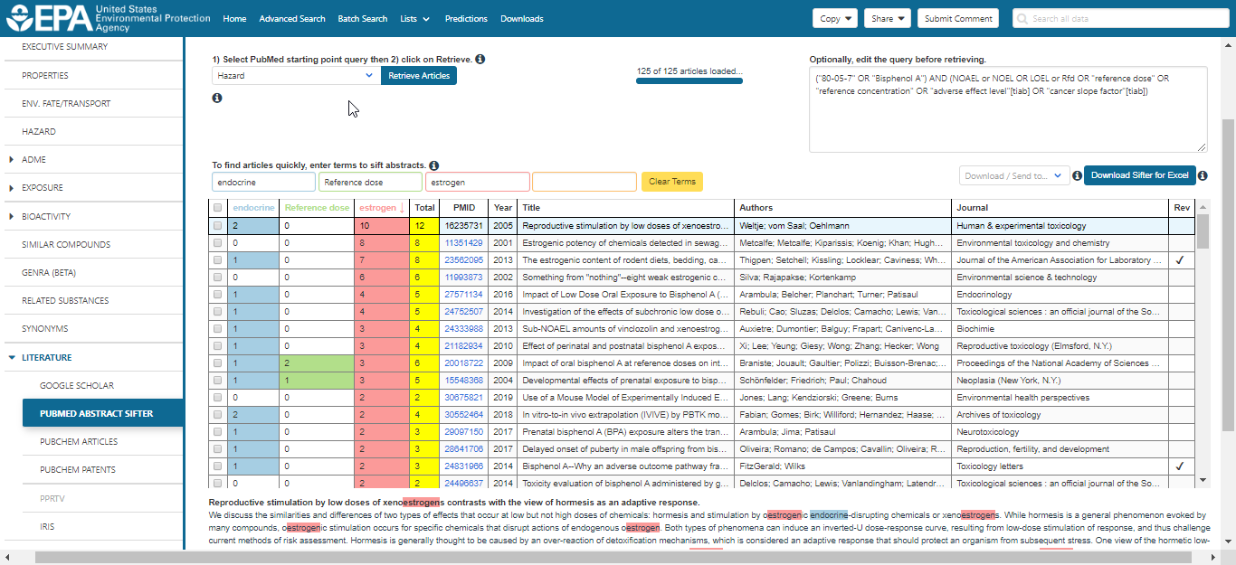 The Abstract Sifter module display for Bisphenol A from the US-EPA CompTox Chemicals Dashboard. A MeSH based query for "Hazard Data" associated with Bisphenol A returned 125 articles from a query of over 29 million abstracts in PubMed.